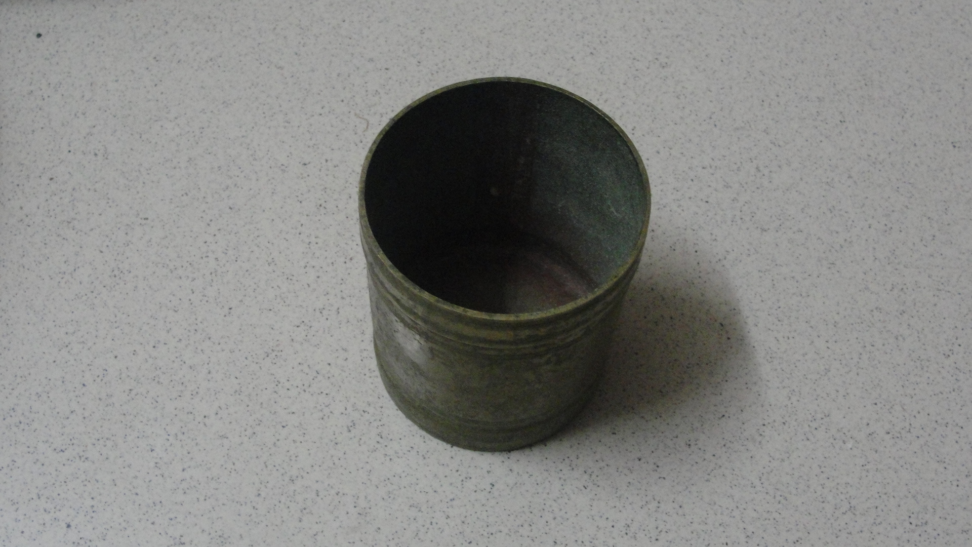 This photo depicting a Uzhakku (measuring too)l used for rise measuring in Tamil Nadu. This is one of the Tamil cultural icon.